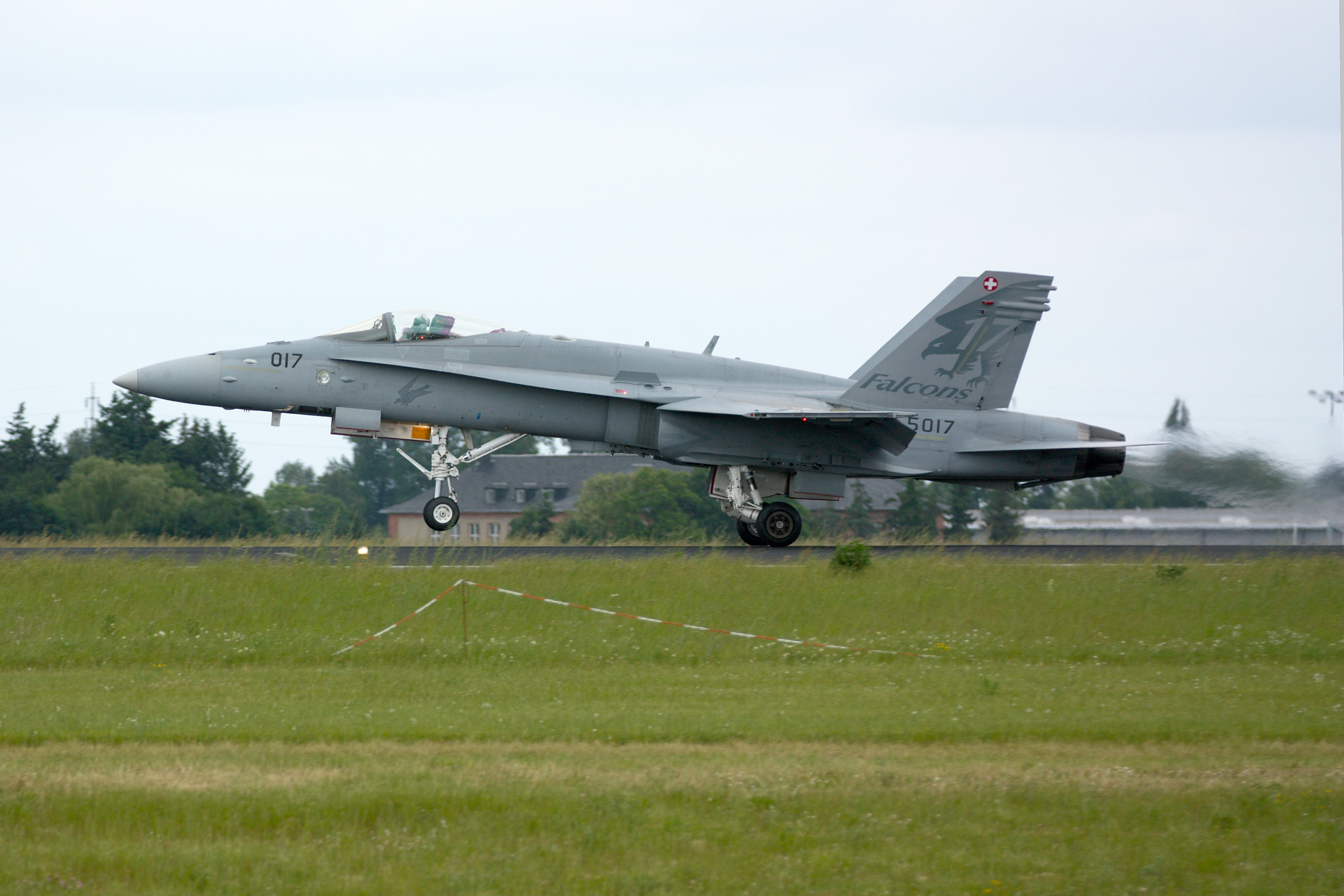 F/A-18 at ILA 2010